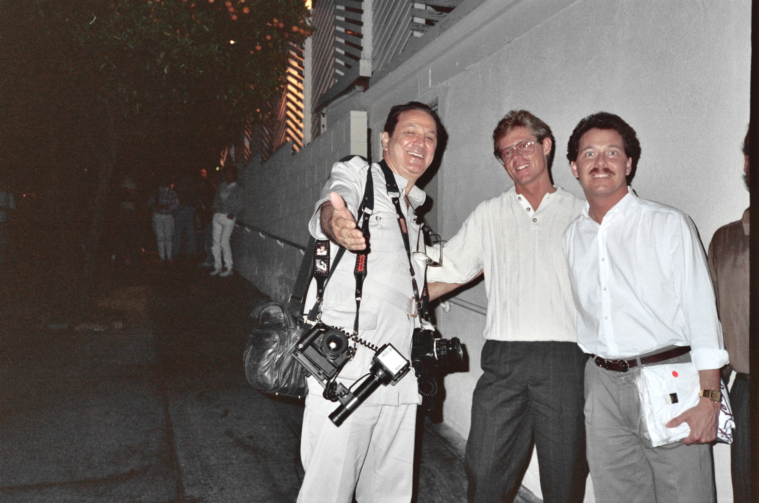 Famed celebrity photographer Ron Galella with me and Rick - 1988 - Permission granted to copy, publish, broadcast or post but please credit "photo by Alan Light" if you can